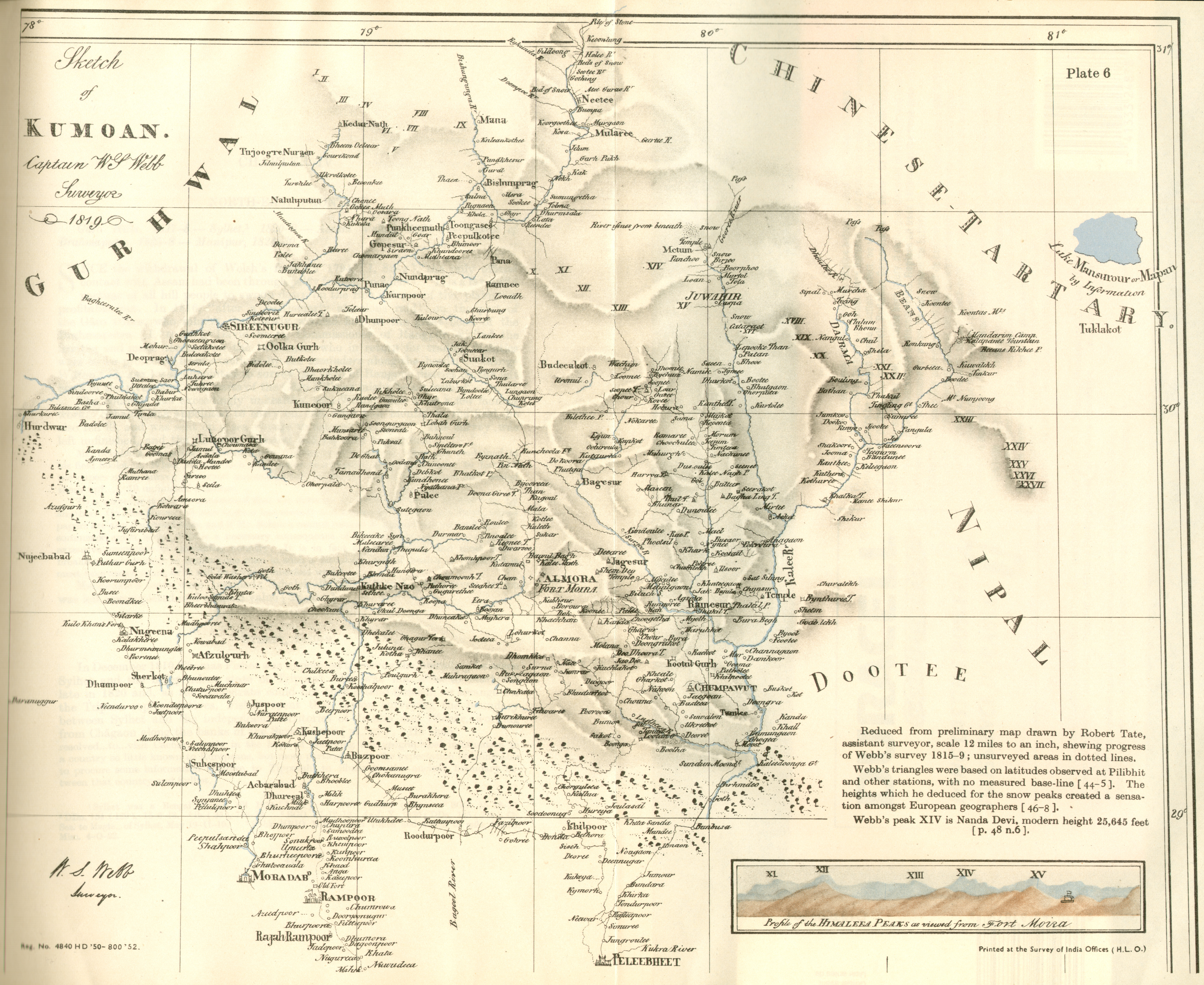 This is the first survey map of the Kumaon region, created by Captain W. J. Webb. Published in the Historical Records of the Survey of India, Vol. III, 1856. Title: Sketch of Kumoan, Captain W. J. Webb surveyor 1819 Notes: Reduced from preliminary map drawn by Robert Tate, assistant surveyor, scale 12 miles to an inch, shewing progress of Webb's survey 1815—9 ; unsurveyed areas in dotted lines. Webb's triangles were based on latitudes observed at Pilibhit and other stations, with no measured base-line [44–5]. The heights which he deduced for the snow peaks created a sensation amongst European geographers [46–8]. Webb's peak XIV is Nanda Devi, modern height 25,645 feet [p. 48 n.6]